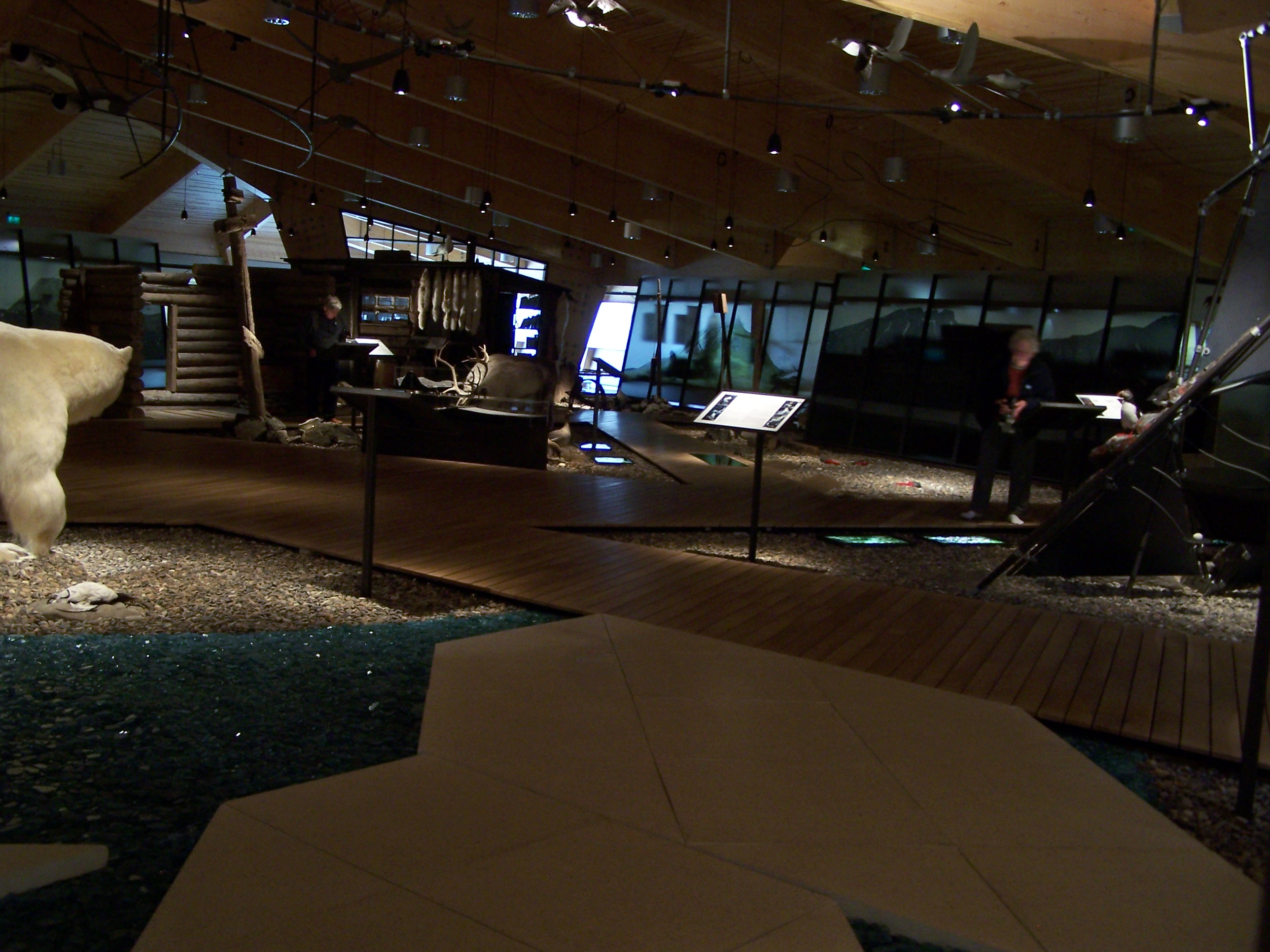 Museum, Svalbard c 2008, Niels Elgaard Larsen